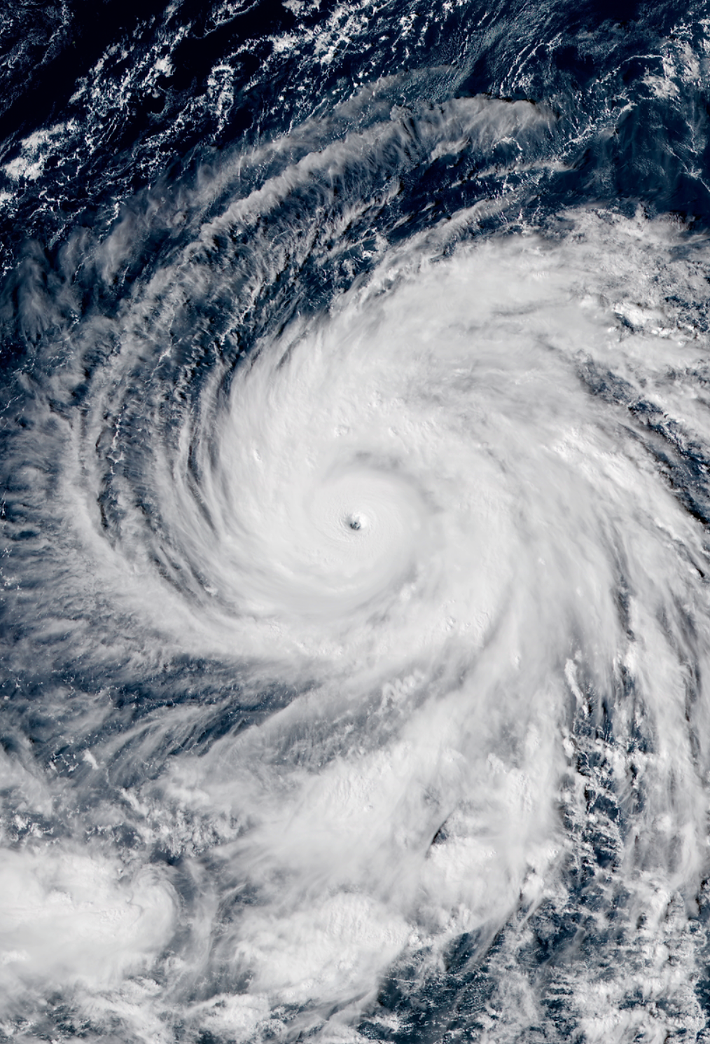 Super Typhoon Yutu approaching the Northern Mariana Islands near peak intensity on October 24, 2018.